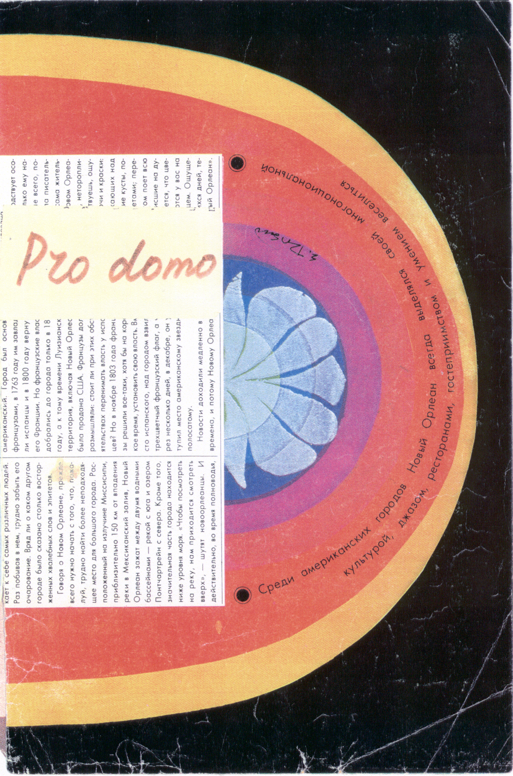 Lifshitz-folder-2.